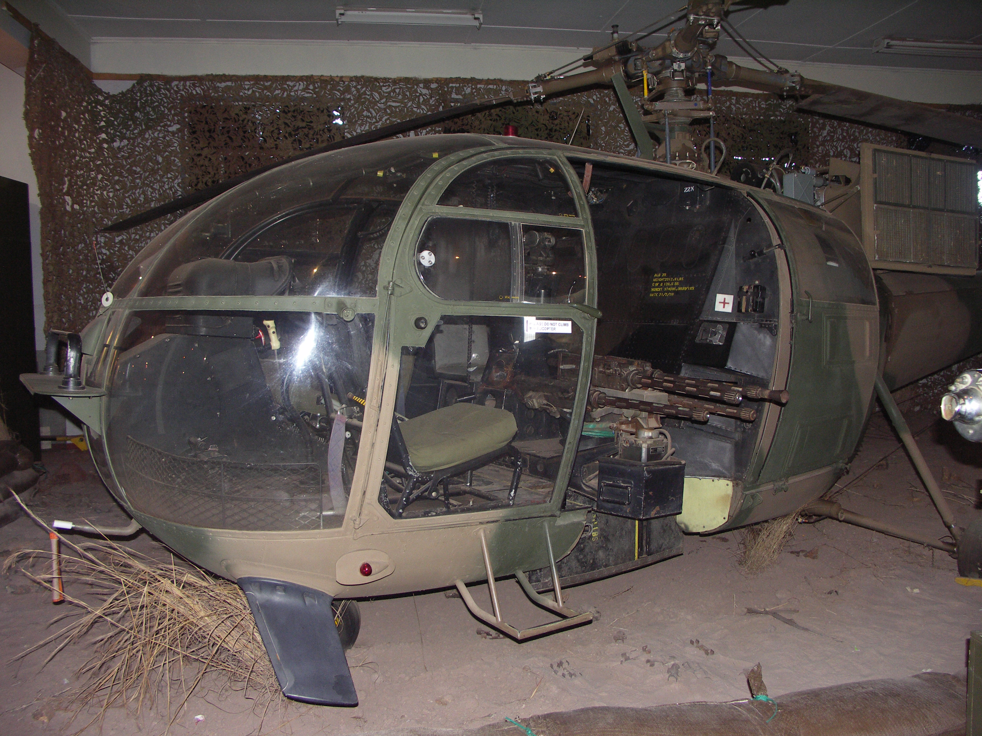 Aérospatiale Alouette III modified for gunship duty